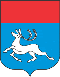 Koryakia district (Kamchatka oblast), coat of arms